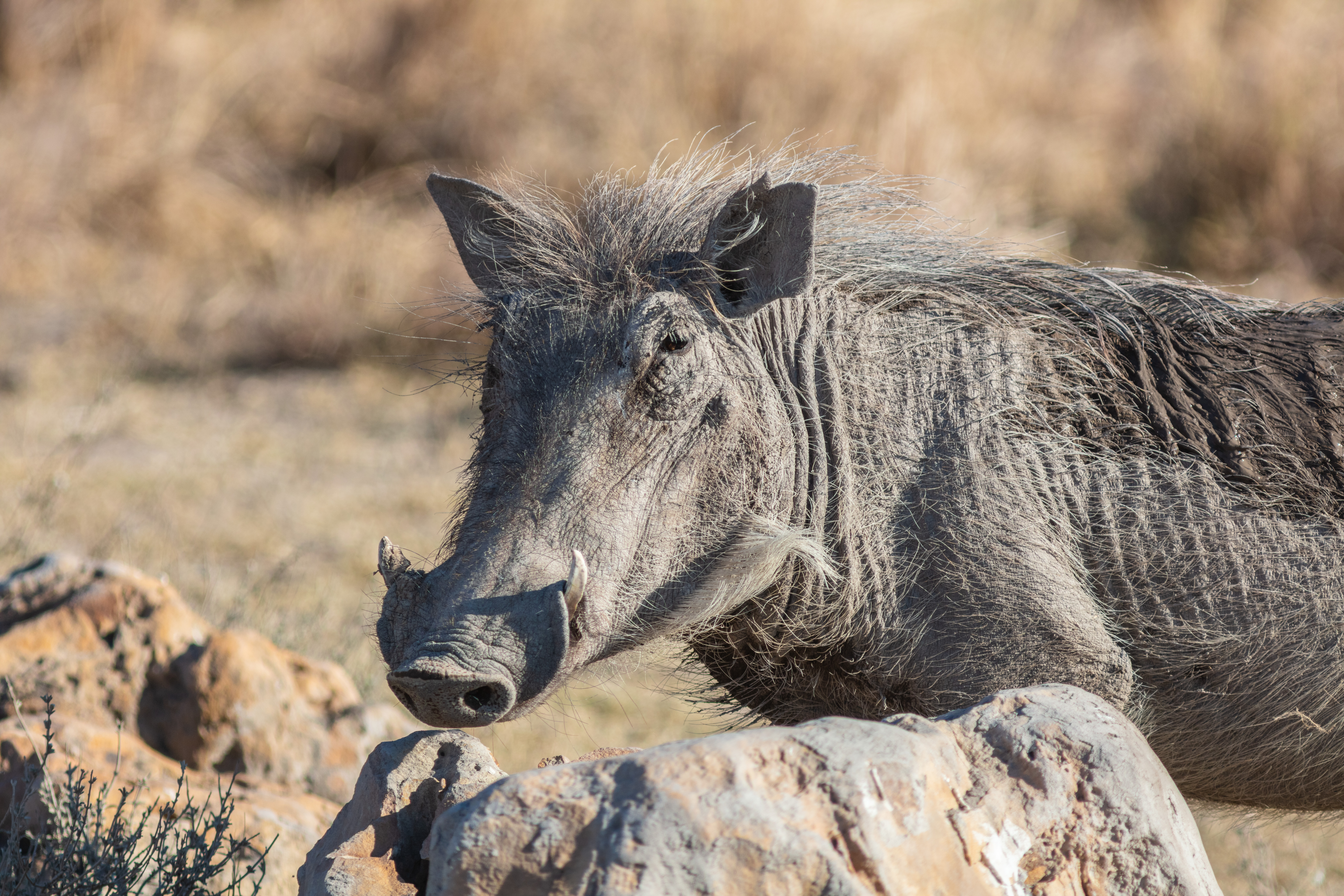 Common warthog (Phacochoerus africanus), Khama Rhino Sanctuary, Botswana